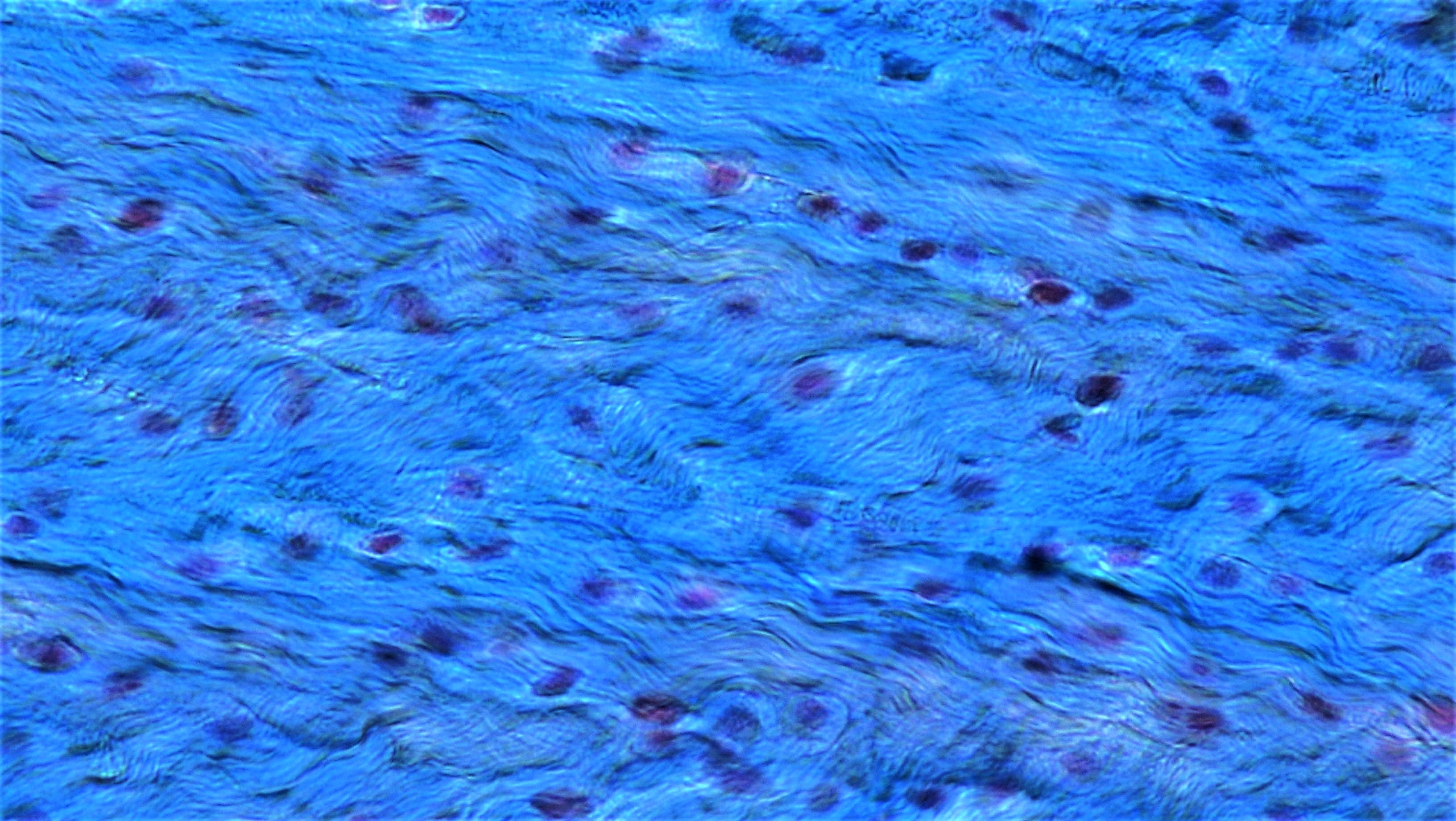 cross section: fibrocartilage magnification: 400x